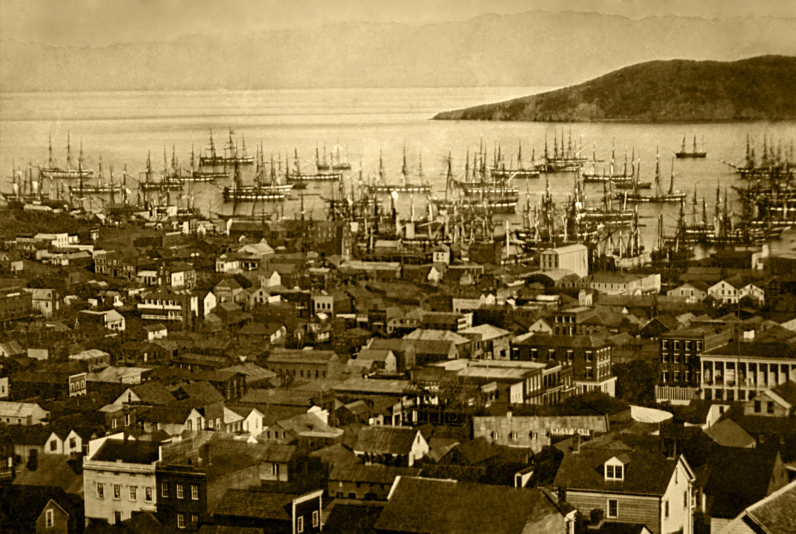 San Francisco harbor at Yerba Buena Cove in 1850 or 1851 — with Yerba Buena Island, and Berkeley Hills, in the background. Daguerrotype, from during the California Gold Rush.